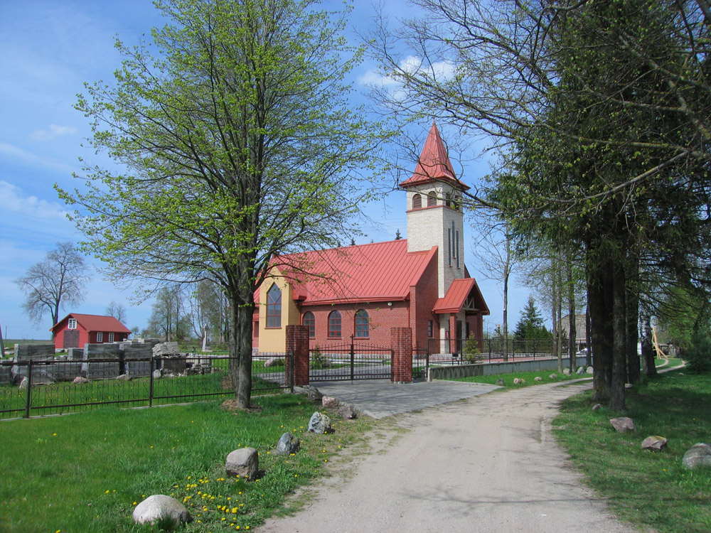 St. Peter church in Patilčiai, Marijampole district, Lithuania